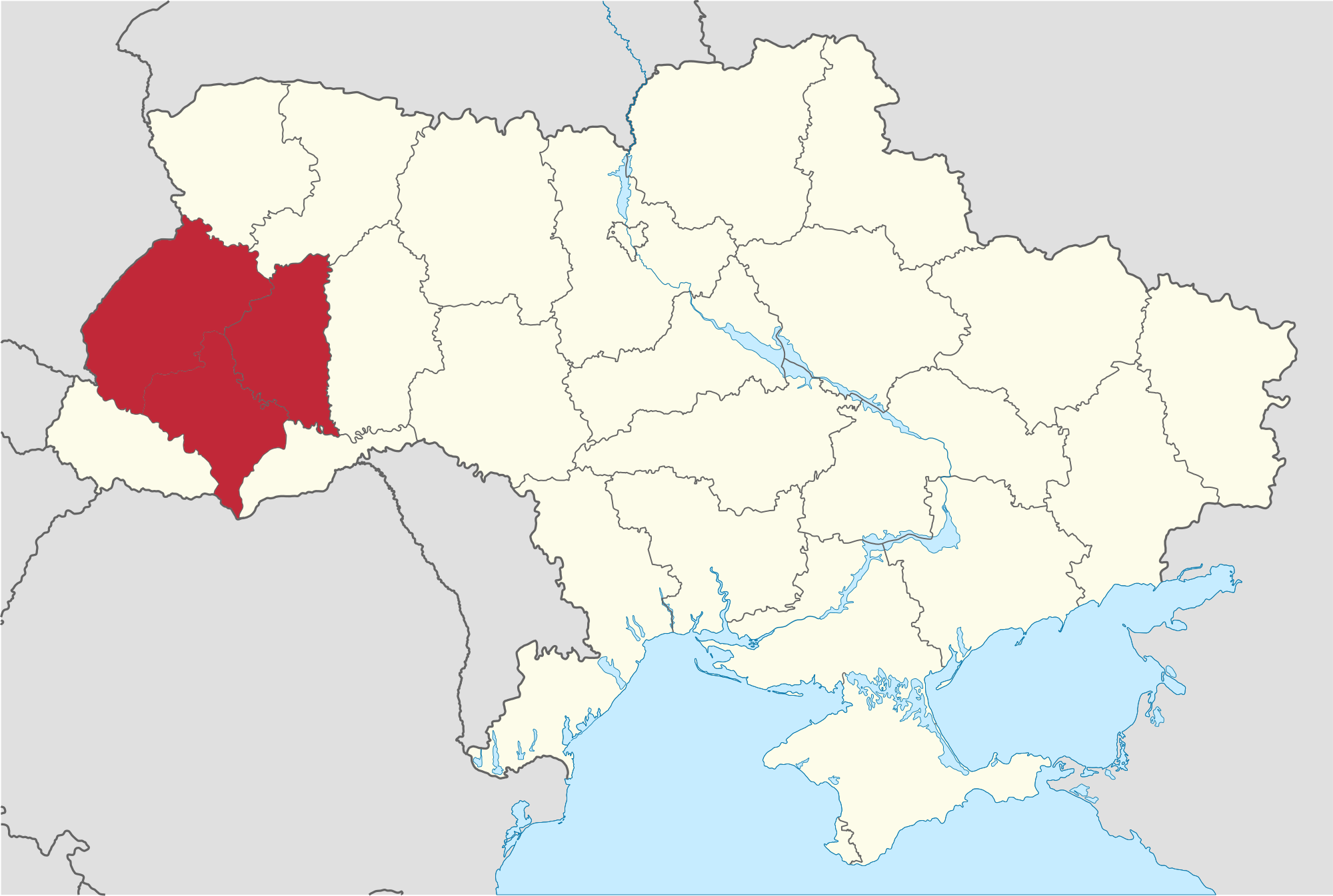 Galician referendum, 1991